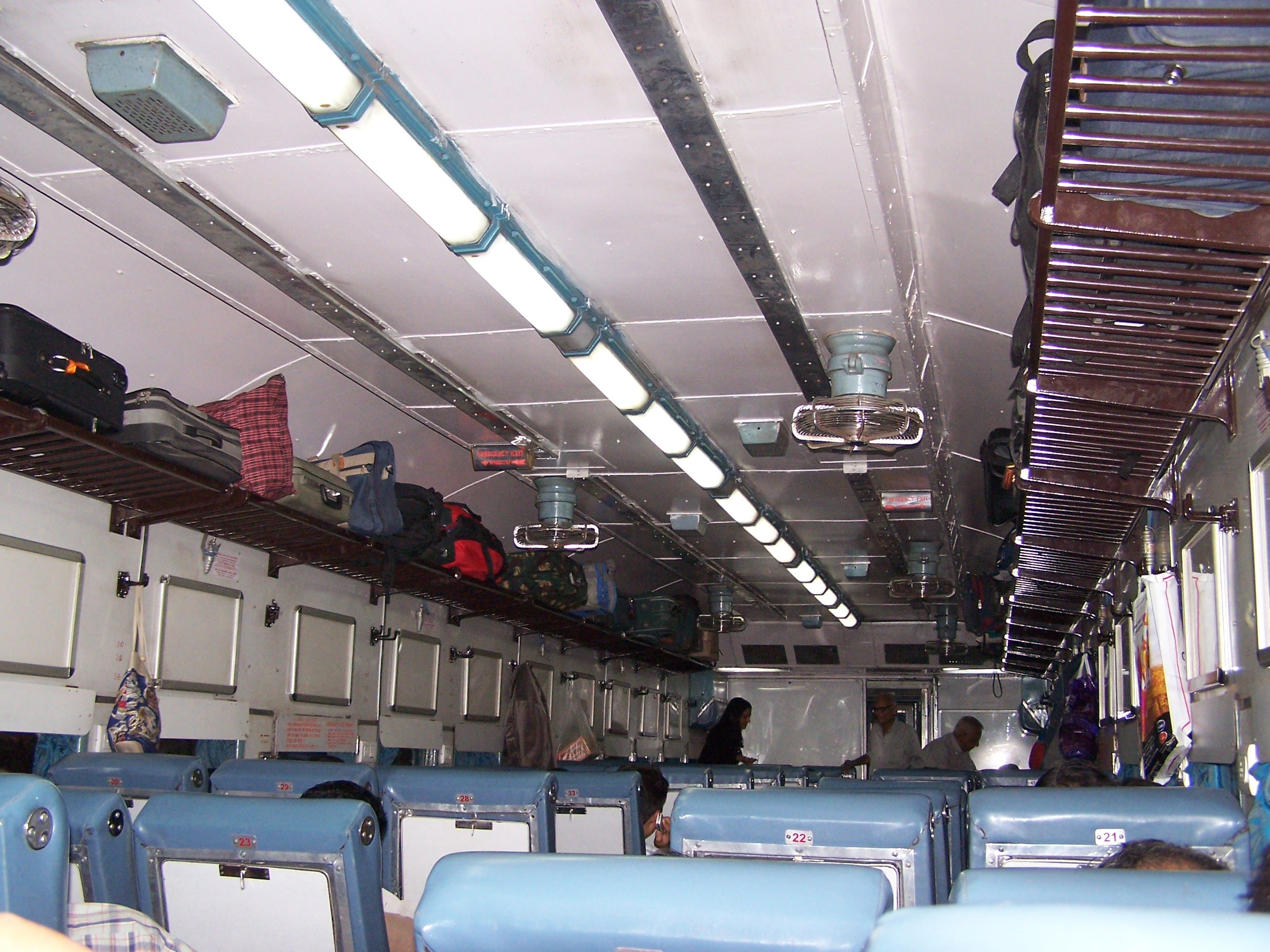 Interior of Shatabdi passenger car. Photograph taken December 2005 by SK Desai.